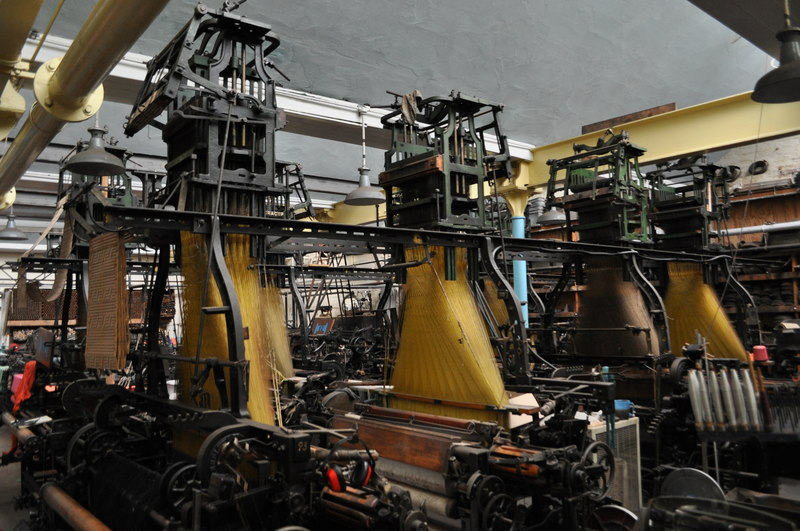 Jacquard Loom, near to Matlock Bath, Derbyshire, Great Britain. The jacquard loom uses a punched card system to describe weaving patterns.